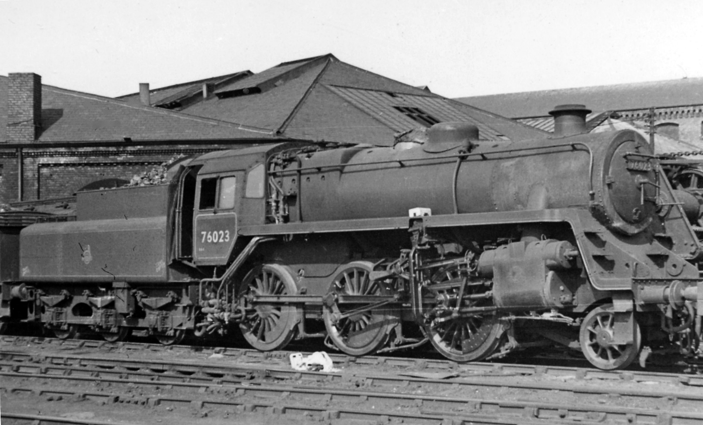 BR Standard 4MT 2-6-0 at Sunderland Locomotive Depot. Resting on a Sunday amongst much older ex-NE locomotives is No. 76023 (built 12/52, withdrawn 10/65).